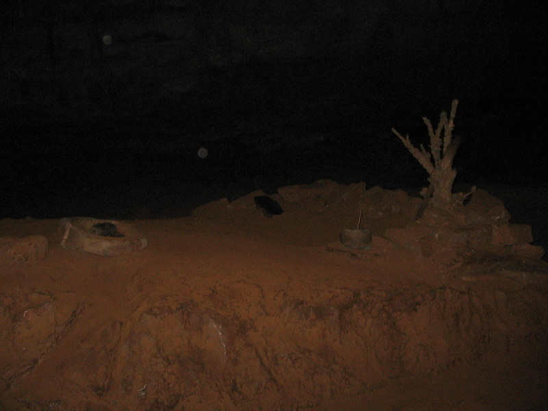 Picture taken by contributor (Claidheamhmor) at the Sudwala Caves on 2006-02-11, with a Canon Powershot A400 digital camera. It shows the location of artifacts used by Swazi refugees in the early 19th century.